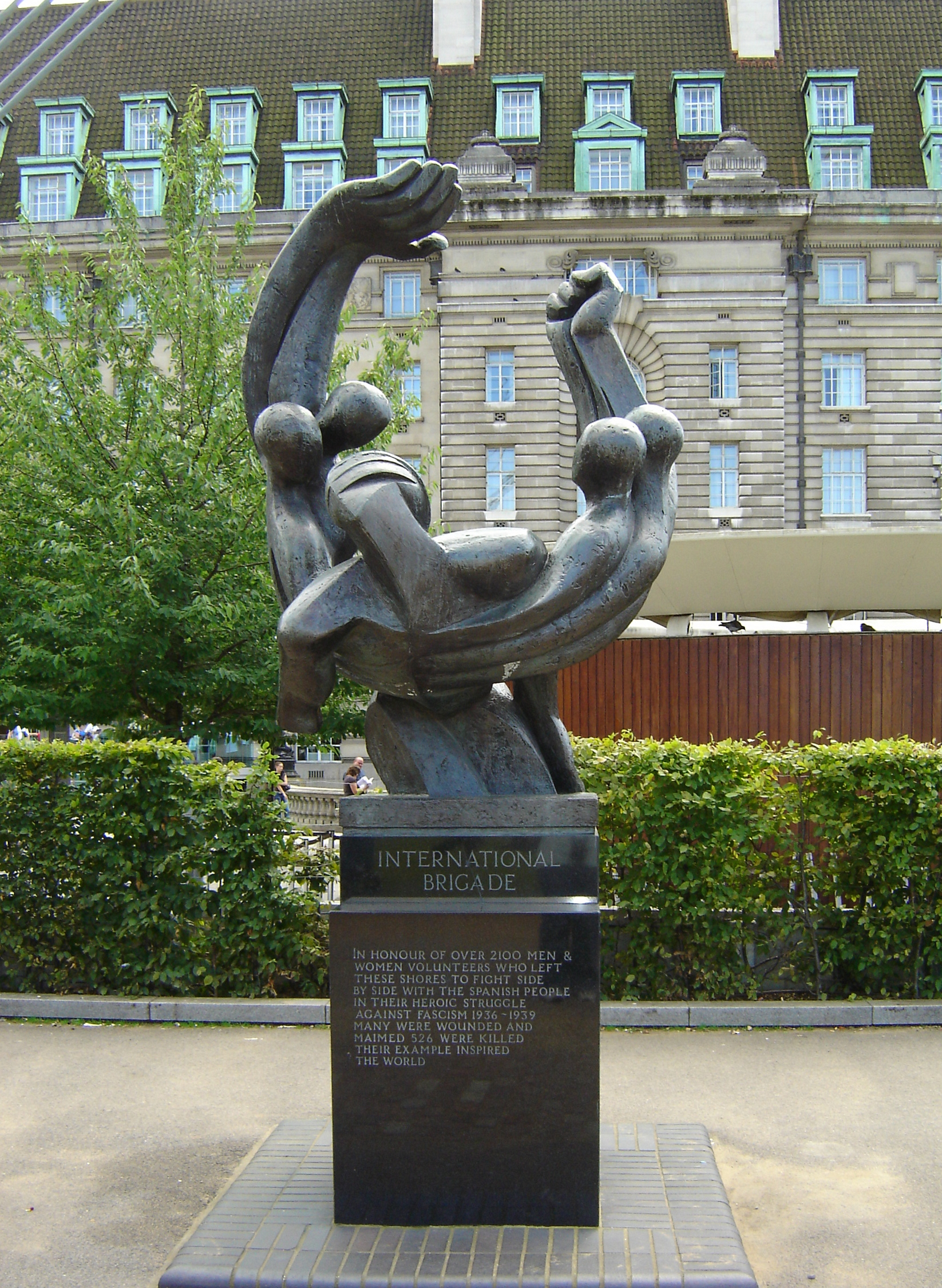 International Brigades memorial London with former LCC building in background.